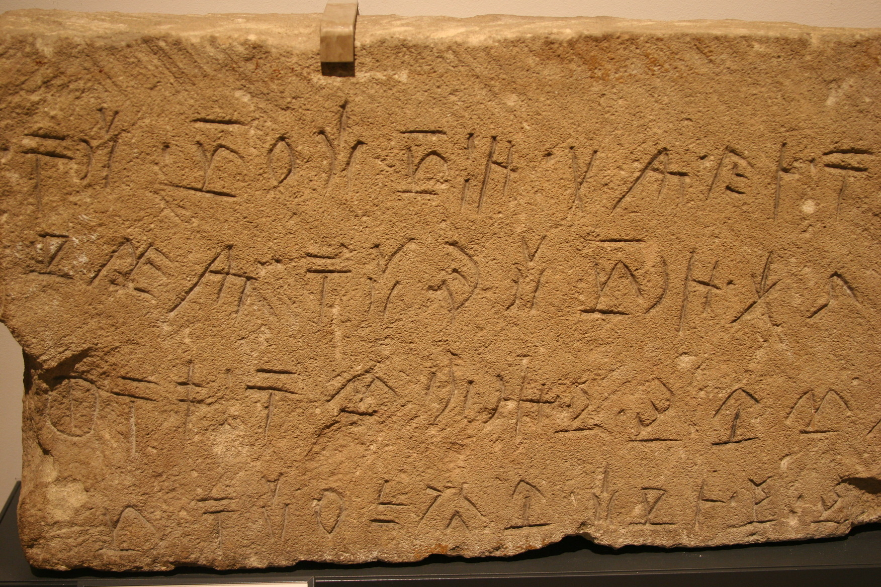 Eteocypriot writing. Amathous, Cyprus, 500 to 300 BC. Ashmolean Museum, Oxford, 2010.